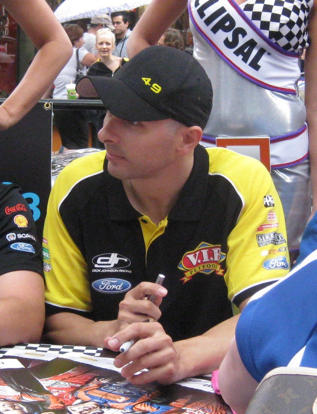 V8 Supercar driver Steve Owen in Adelaide, South Australia.